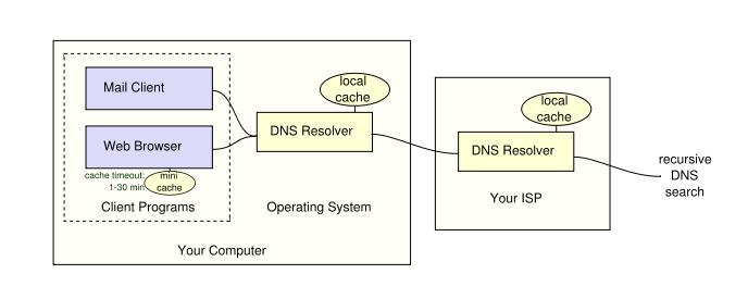 Local DNS functionality